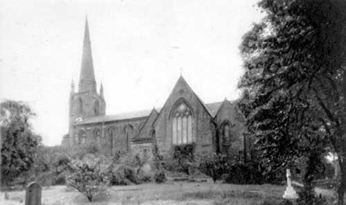 Pre-1914 print of St Stephen's Church, Kirkstall, Leeds, West Yorkshire, England. The building was designed by Robert Dennis Chantrell and built 1828-1829. It was renovated 1863-1864 by Perkin and Backhouse, and all architectural carving from that date is by Burstall and Taylor of Leeds.